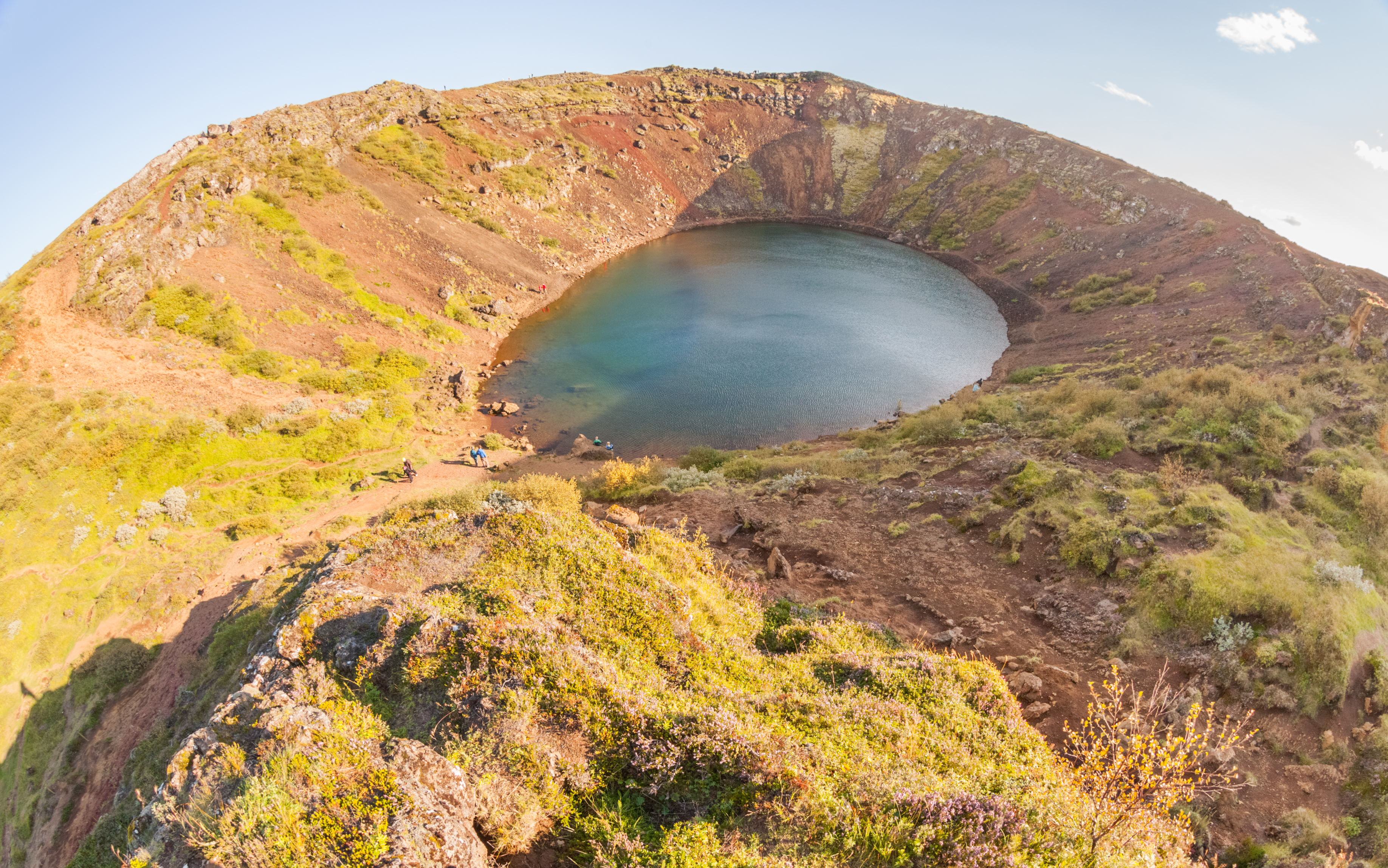 Kerið volcanic crater, Suðurland, Iceland